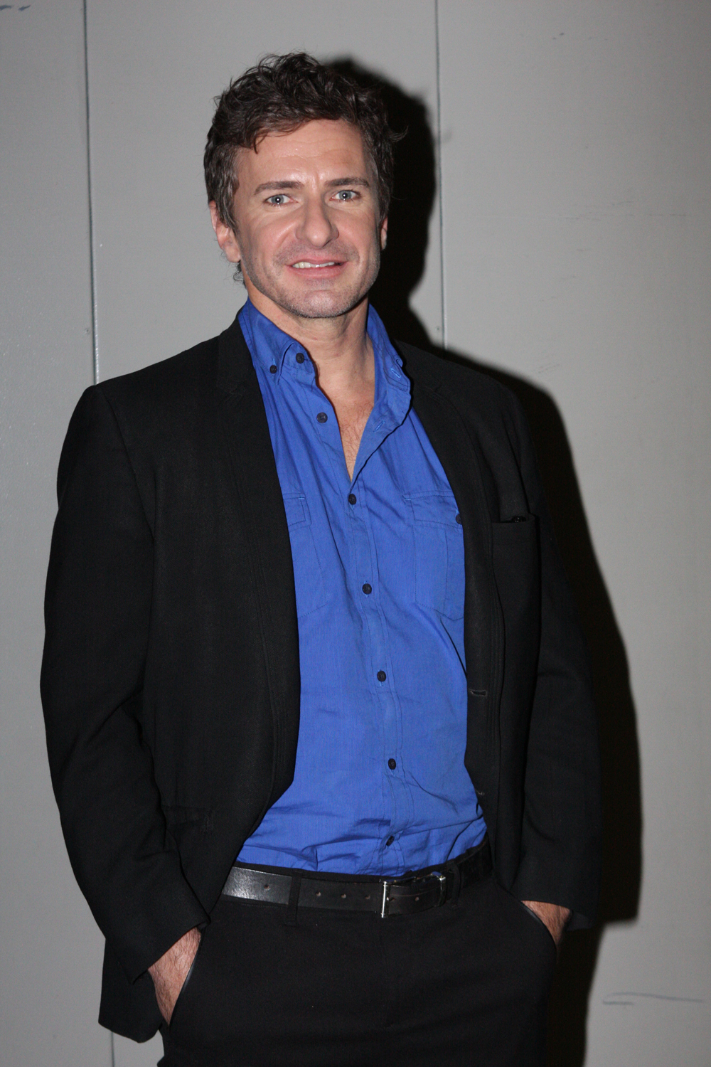 Damian de Montemas attending The People Speak: Australia's Finest Actors and Musicians Come Together. Foxtel Broadcast Event, Sydney, Australia.